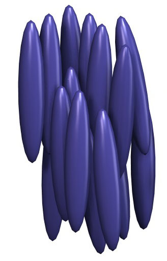 Schematic of mesogen alignment in a liquid crystal nematic phase.